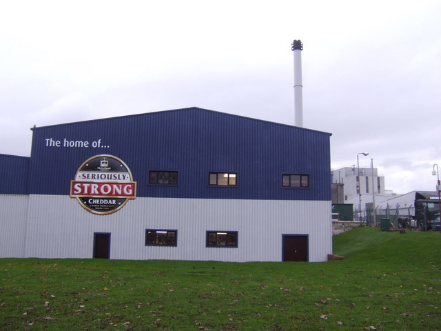 McLelland creamery, Stranraer The third largest cheese producer in the UK is owned by Lactalis, a France-based multinational company.